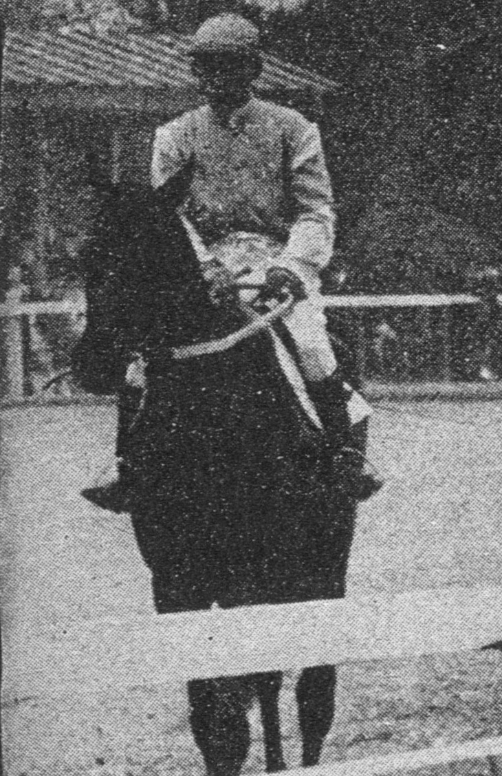 Sachihikari(horse)